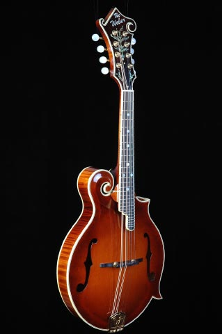 F-Style Mandolin with hand-rubbed varnish finish